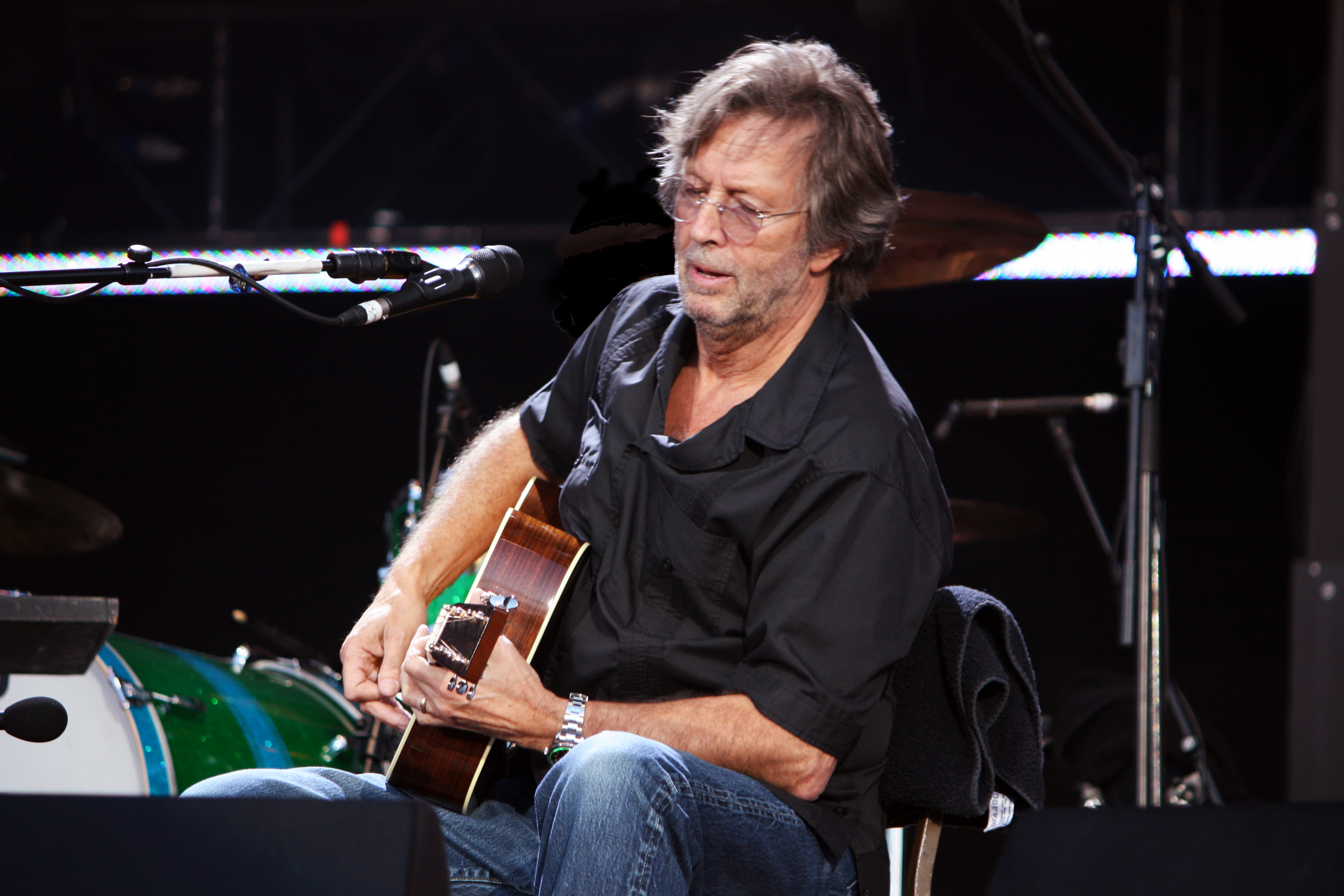 The legendary Eric Clapton playing live at the Hard Rock Calling concert on June 28, 2008 in Hyde Park, London